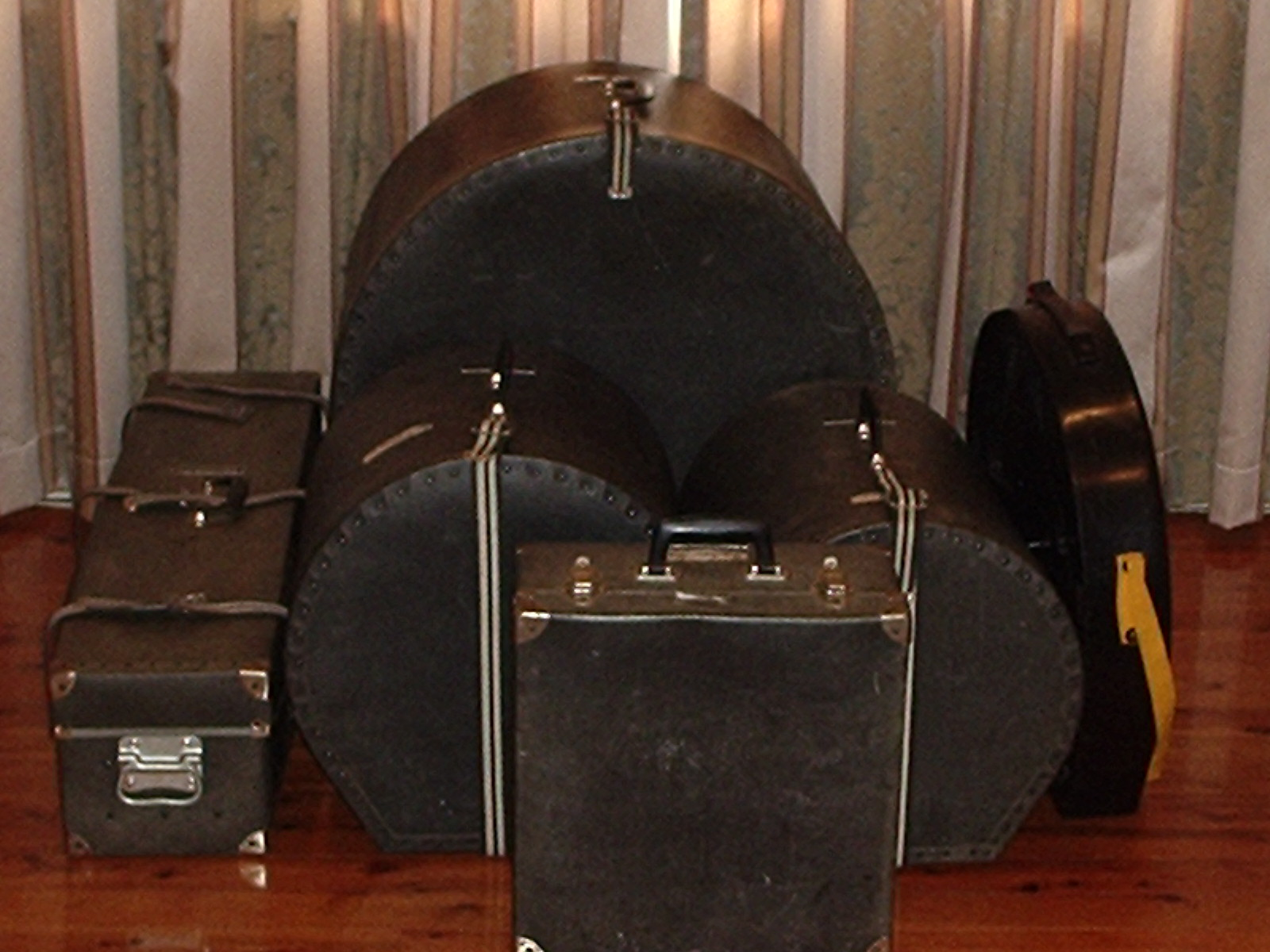 A five-piece drum kit in hard cases. Foreground: snare drum case. Extreme Left: Traps case. Middle left: Floor tom case. Middle right: Twin hanging tom case. Extreme right: Cymbal case. Back: Bass drum case.